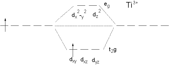 Ti3+ in octahedron field